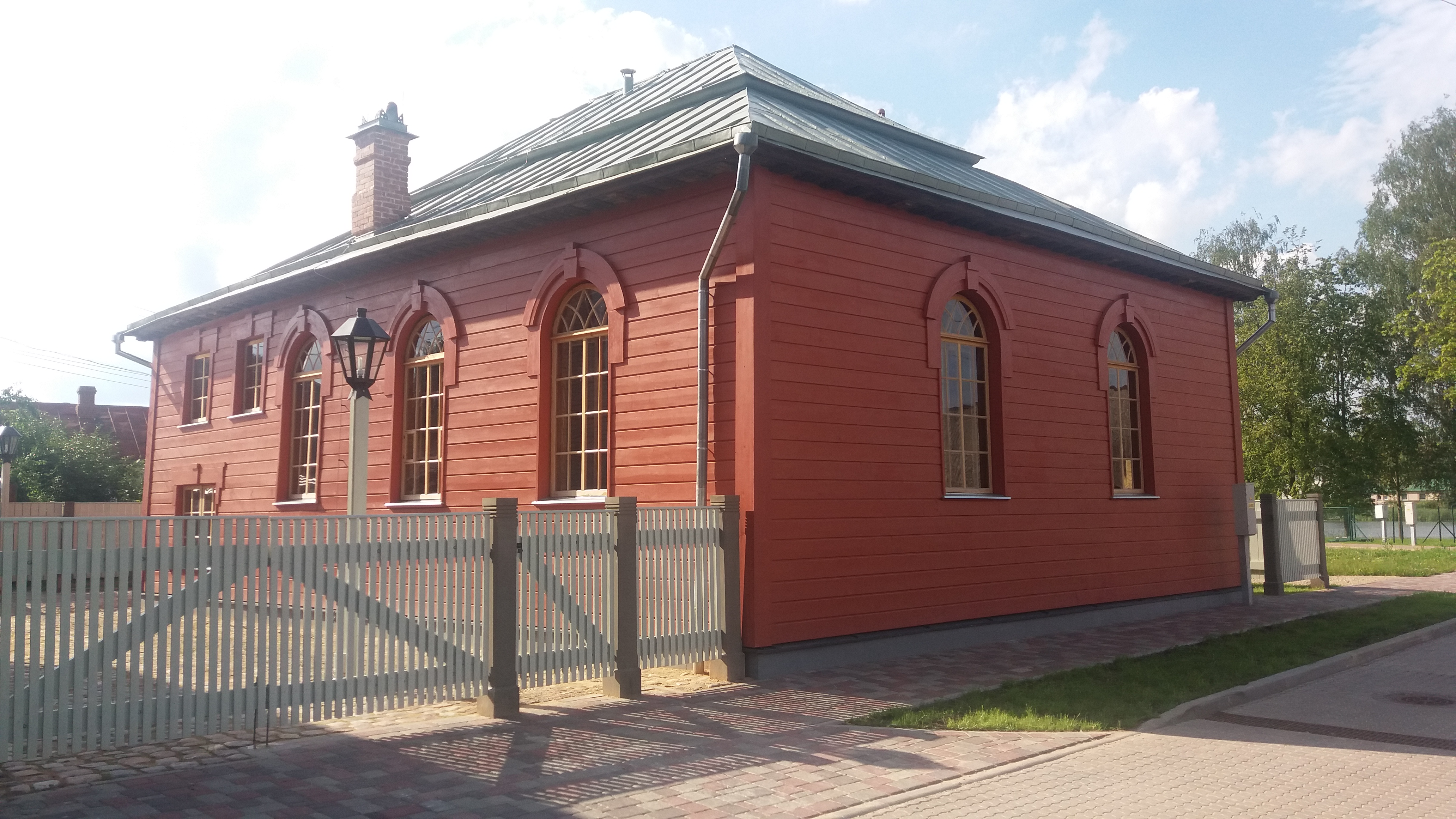 The old synagogue in Ludza